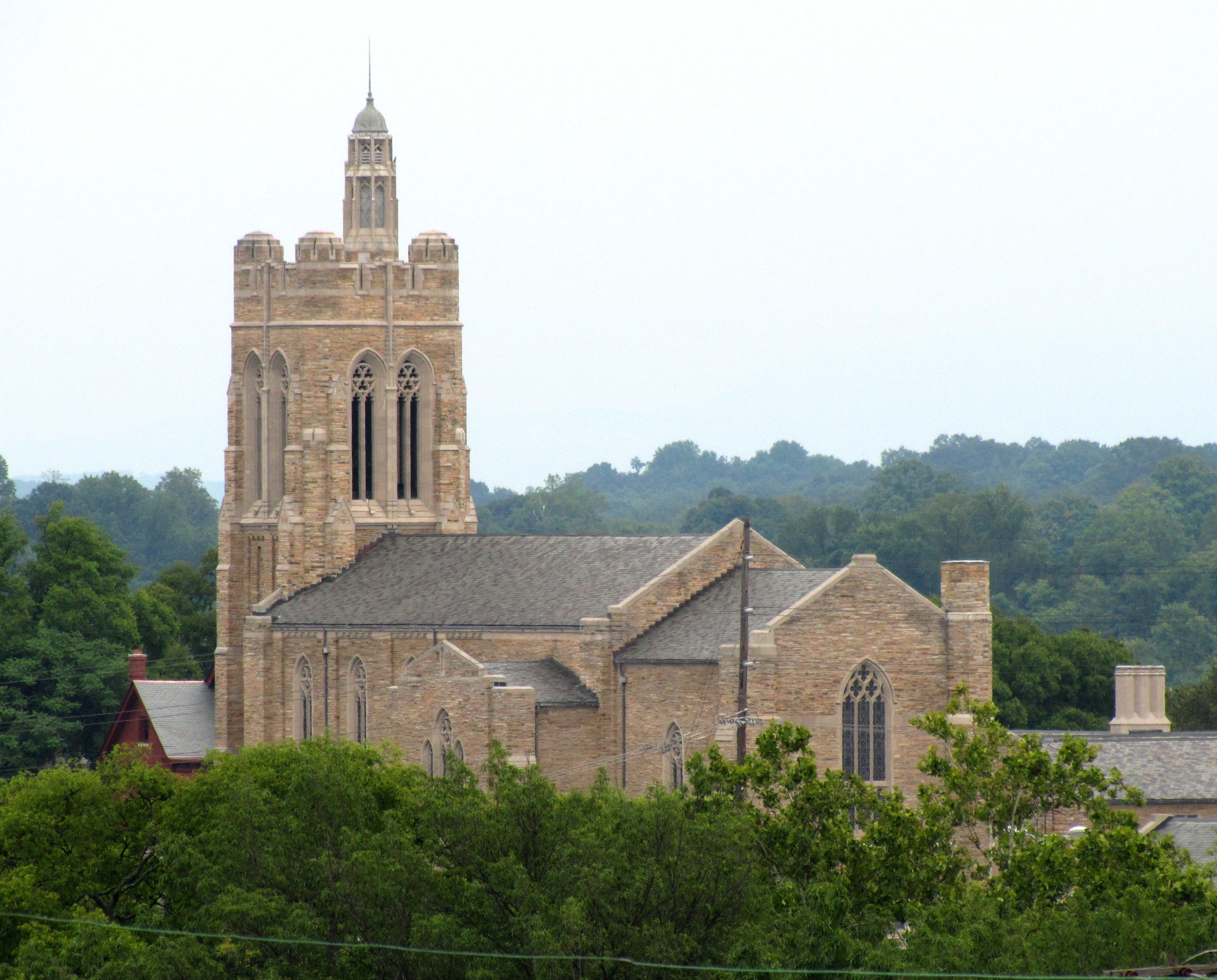 Church Street Methodist Church, viewed from Laurel Avenue, in Knoxville, Tennessee, USA. Built in 1929, the church is now listed on the National Register of Historic Places.